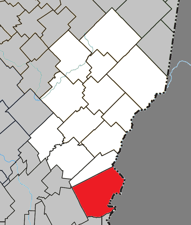 Location of Saint-Zacharie, Quebec within Les Etchemins Regional County Municipality.